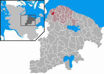 This map shows the area of the Gemeinde (municipality) Brodersdorf in the Kreis (district) Plön, Schleswig-Holstein, Germany.